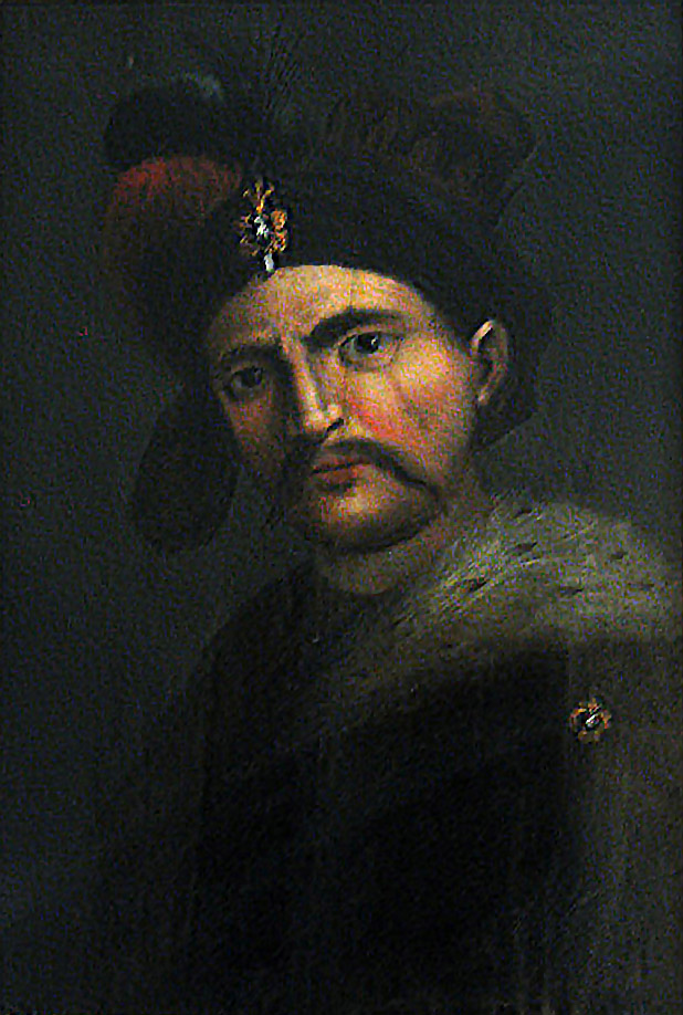 Portrait of Shah Abbas I of Iran, one of the greatest shahanshahs (king of kings) of Iran.